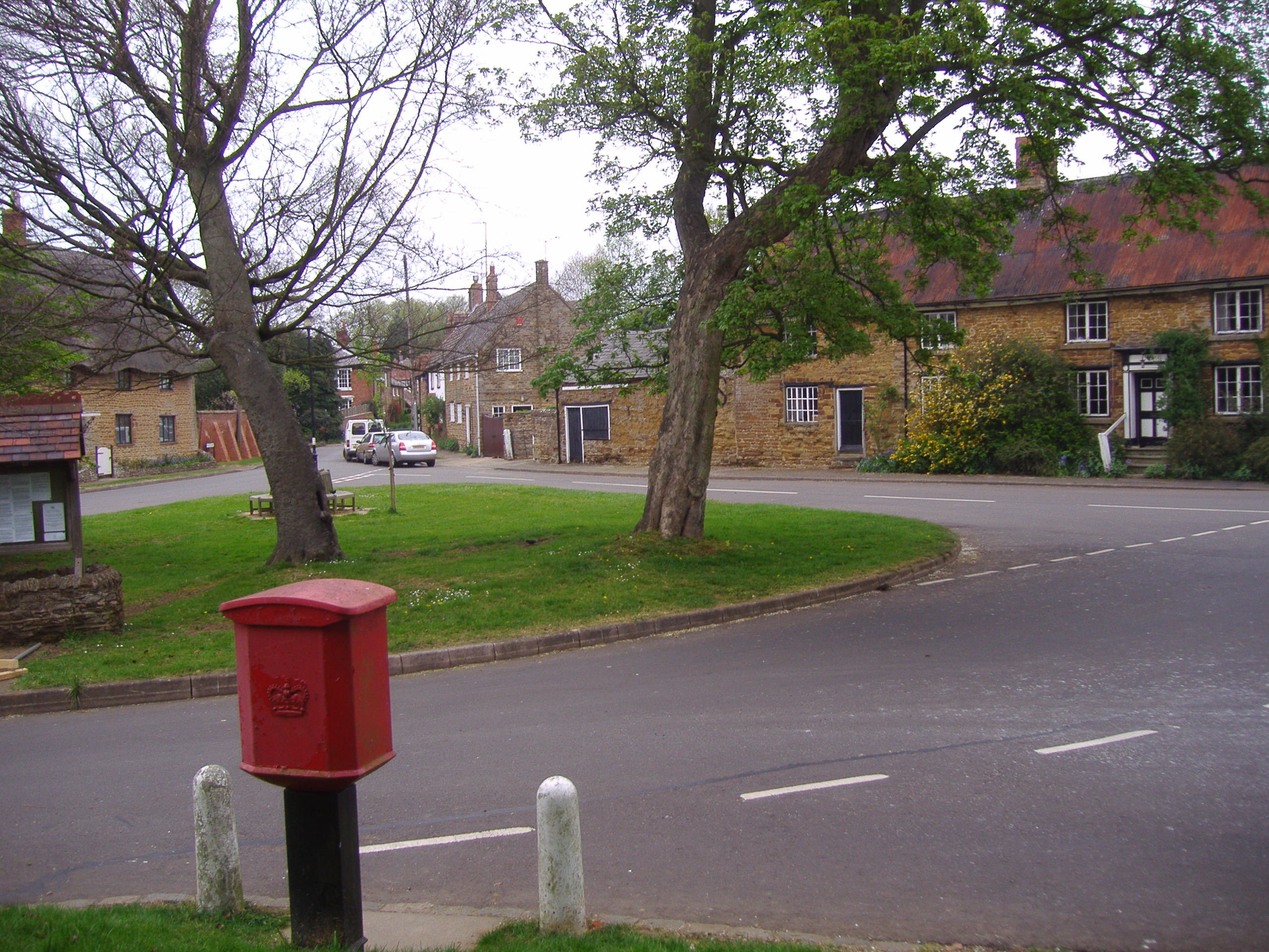 A Digital Photograph of staverton village green 22,04,2007